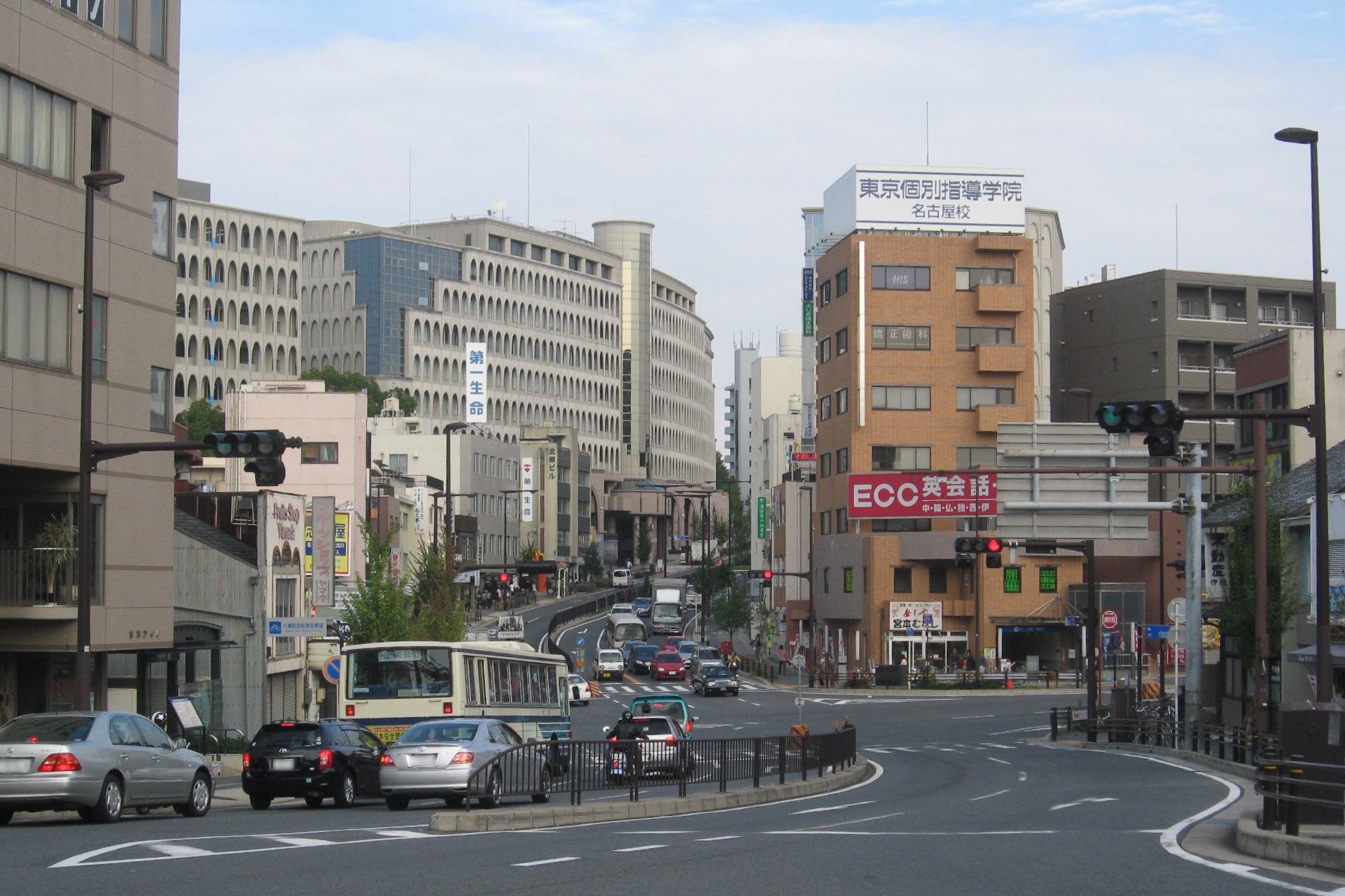 Yamate Green Road (Yagoto Intersection) in Nagoya, Japan. In the background Chukyo University.